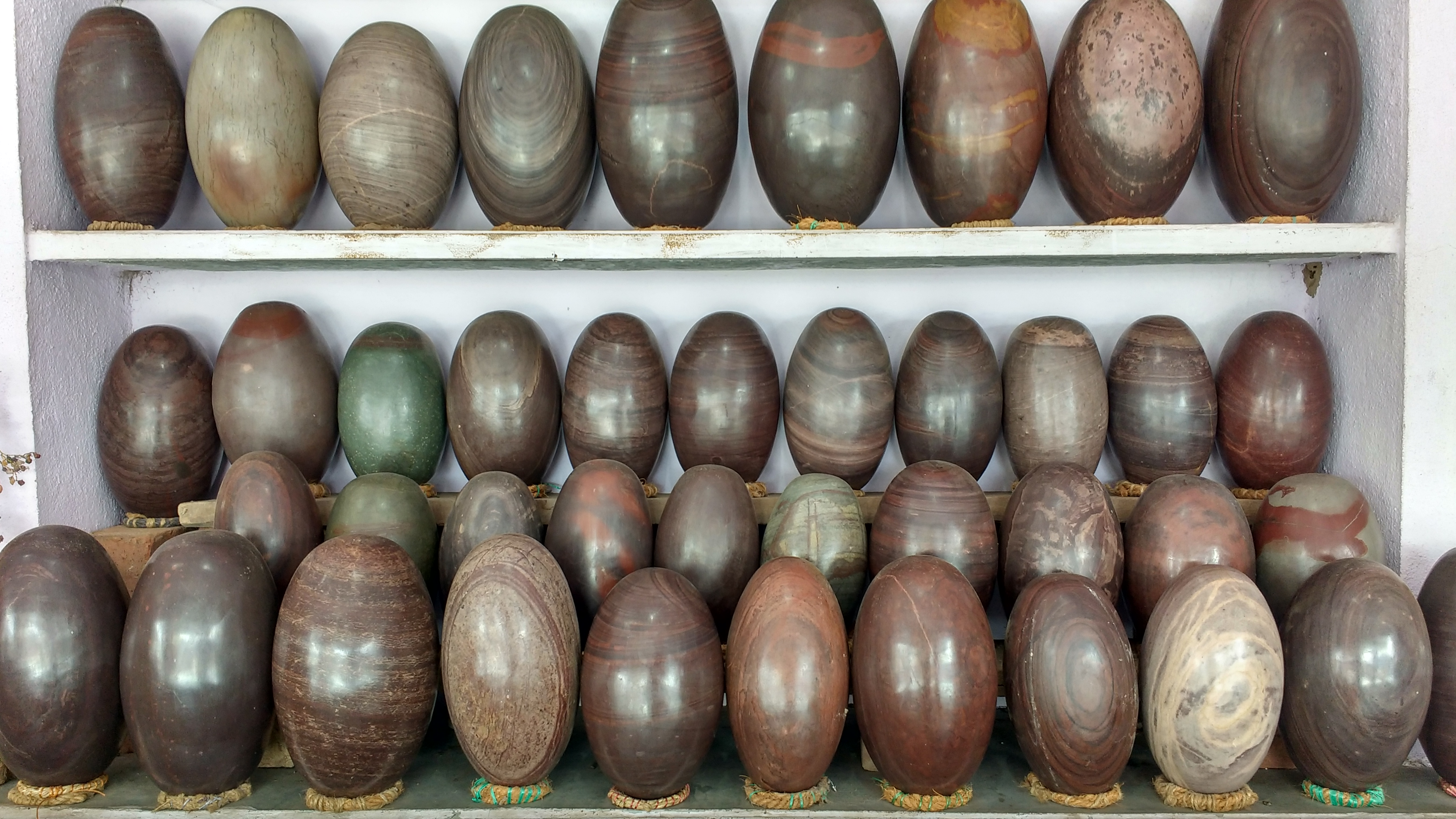 Banalingam stacked on a shelf in a shop at Omkareshwar Temple near Narmada River